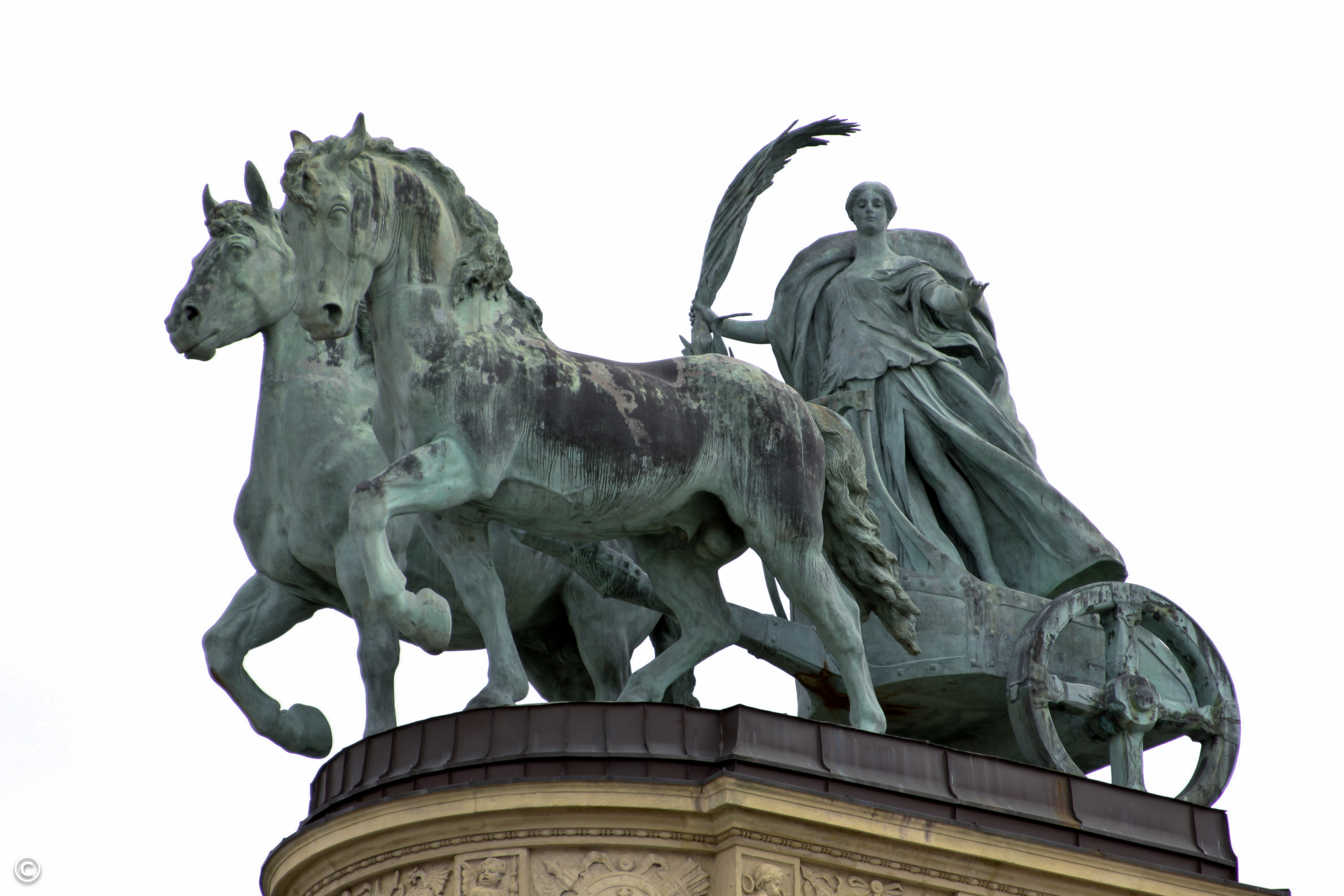 Allegorical figure of peace at the Millennium Monument, Budapest, Hungary